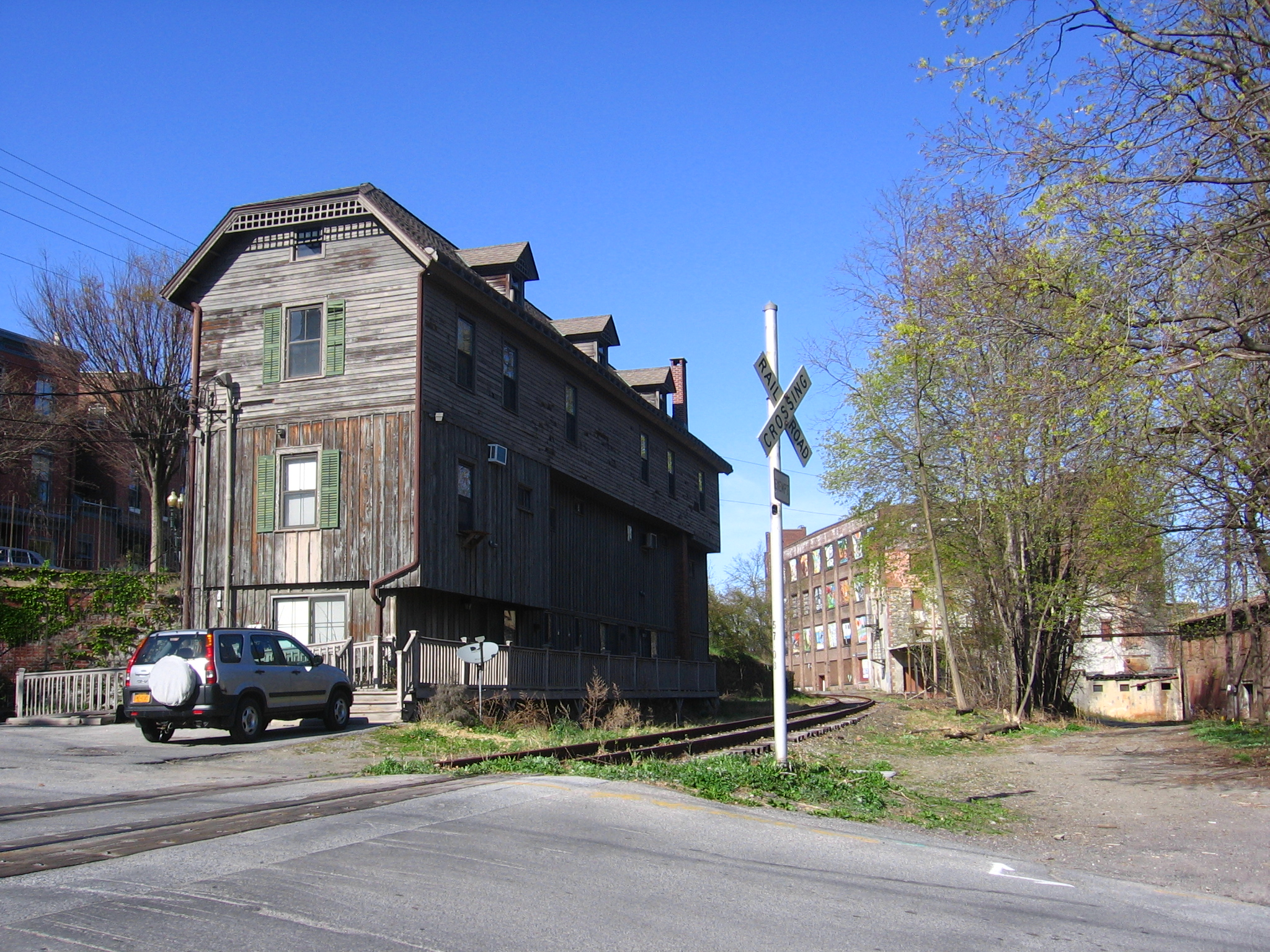 Matteawan Station along the Beacon Secondary in Beacon, NY. This used to be the HQ of the Newburgh, Dutchess and Connecticut Railroad.